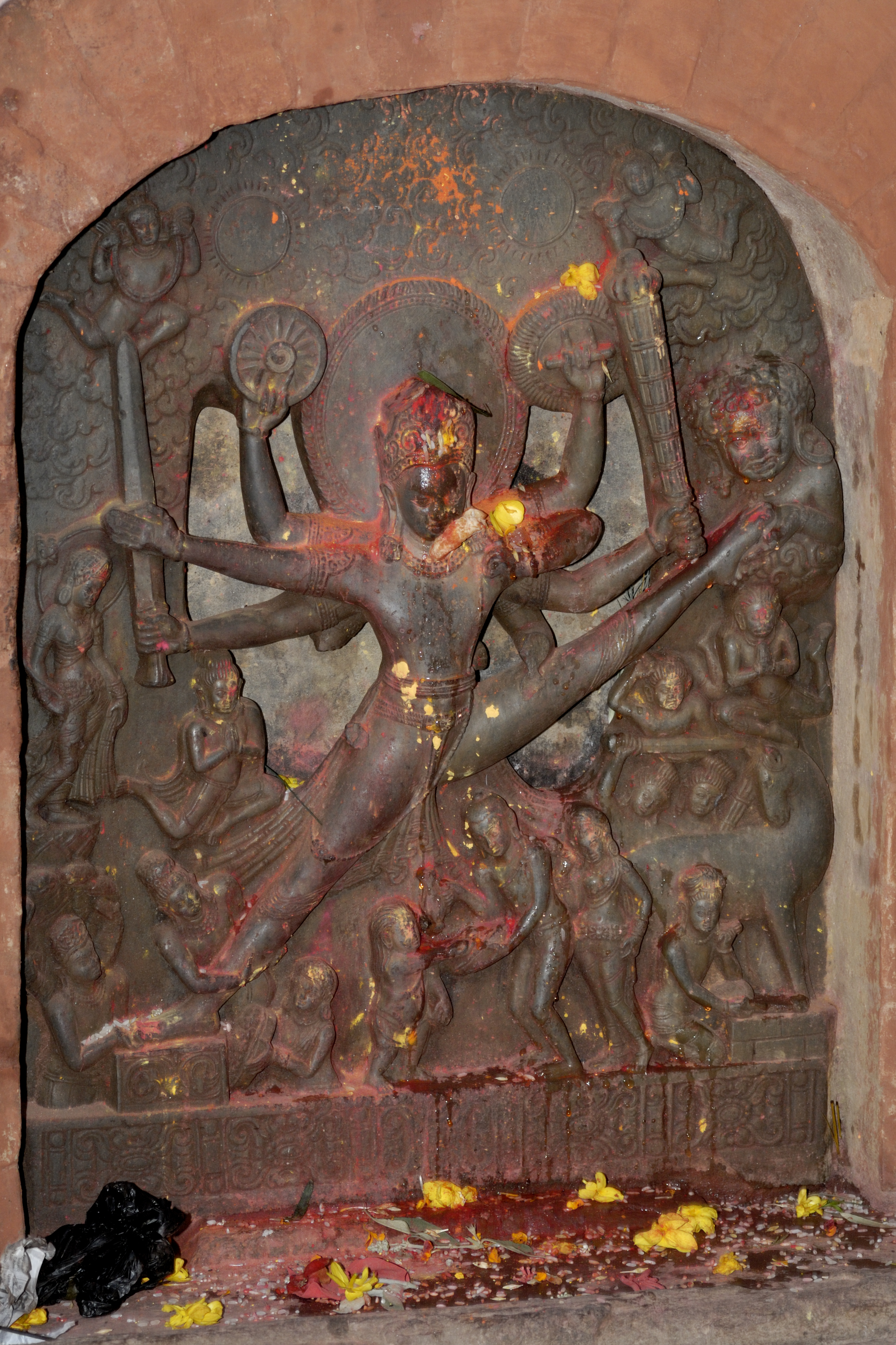 Vishnu Vikranta - 9th century Changu Narayan